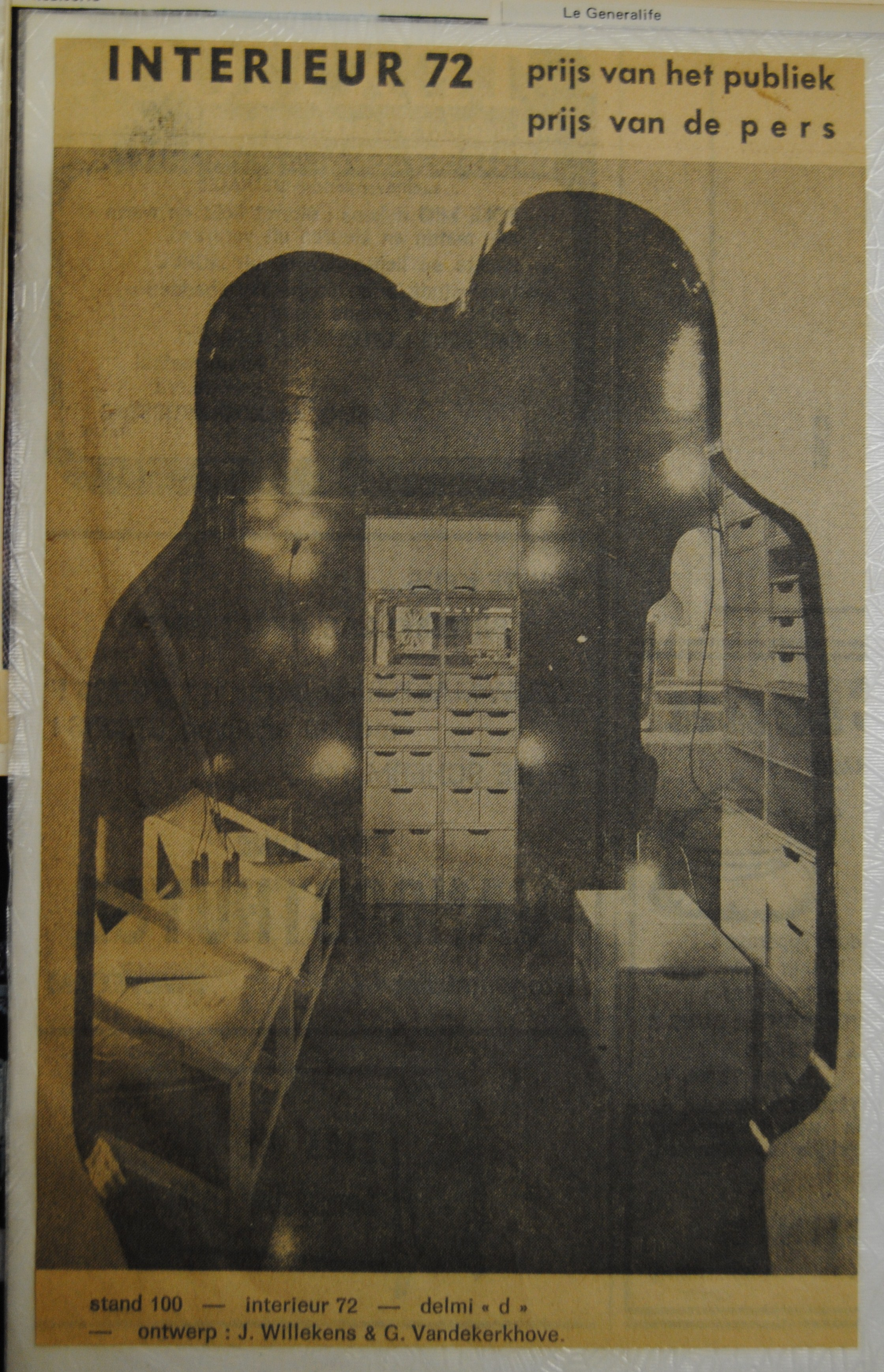 picture taken from artikel in museum